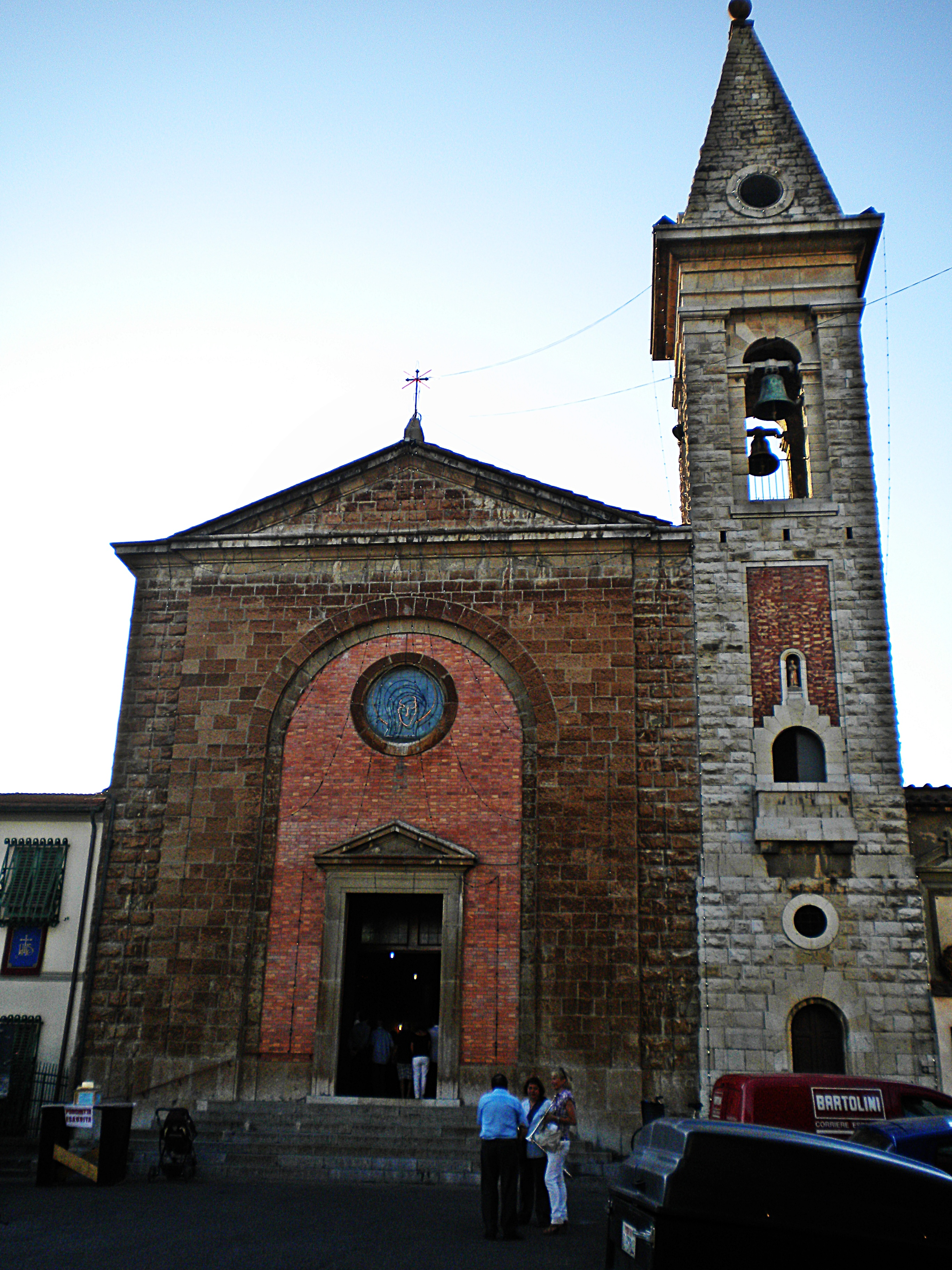 church